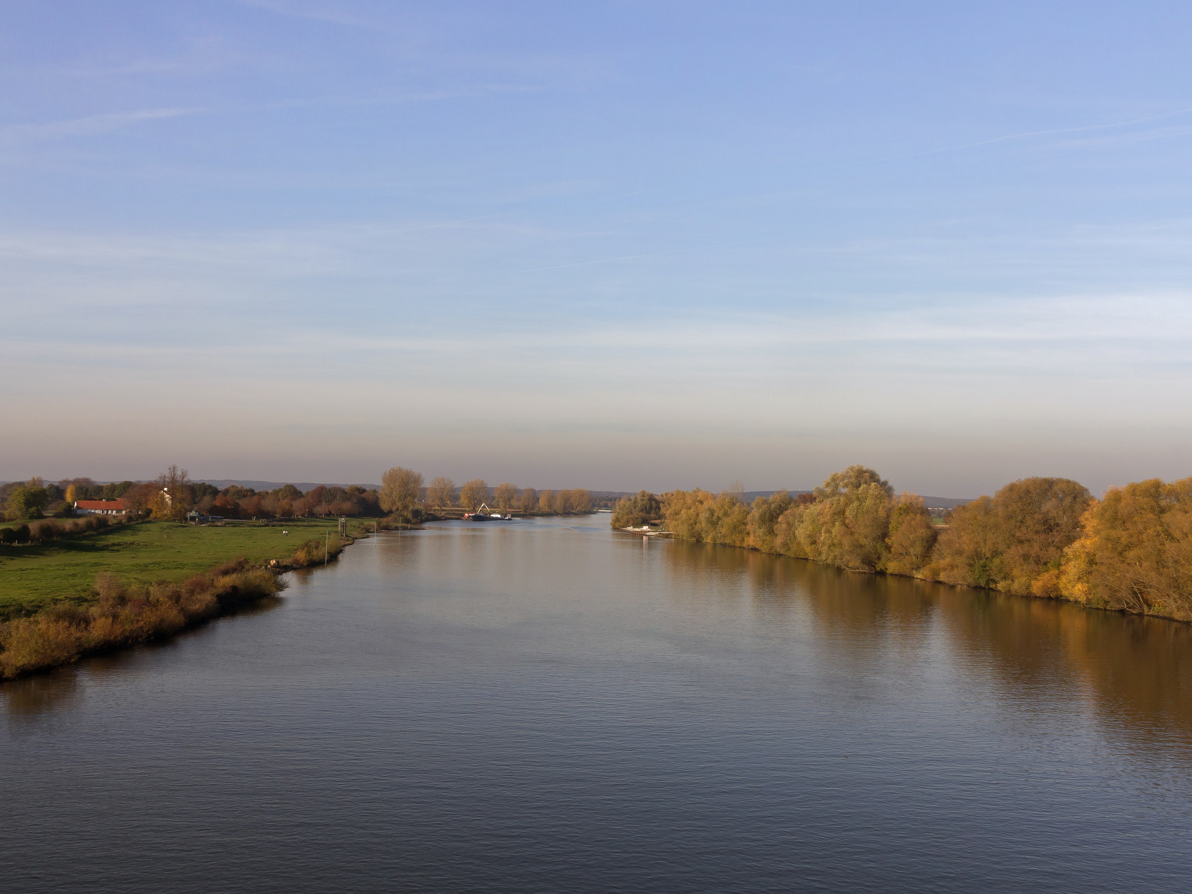 between Gennep and Oeffelt, river: de Maas